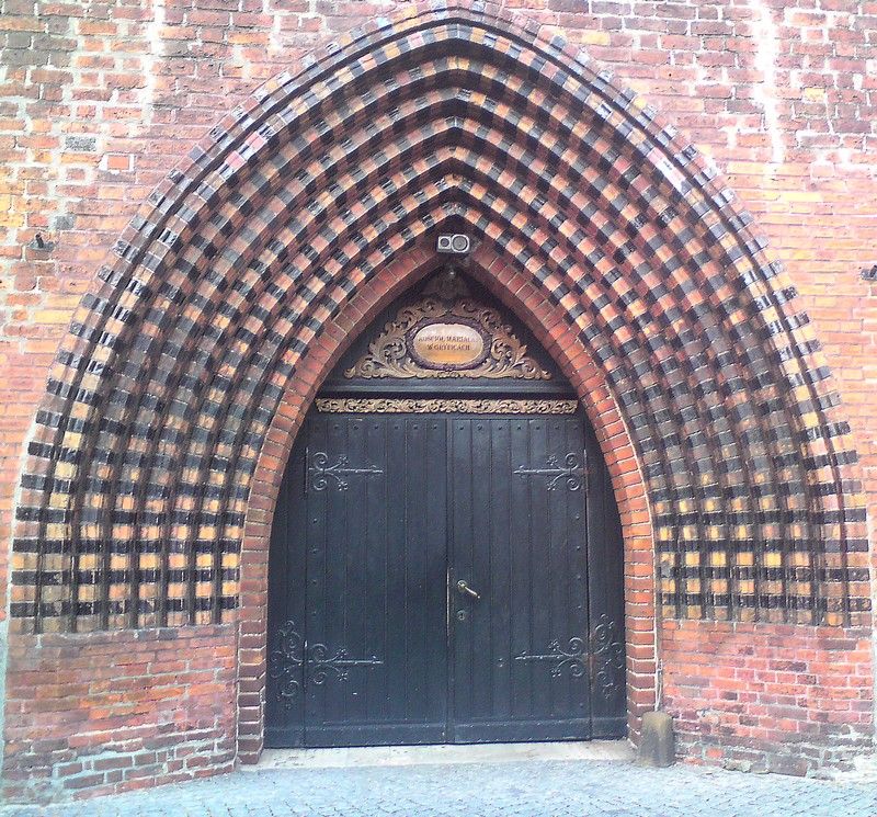 The cardinal portal of StMary's church in Gryfice (Poland)